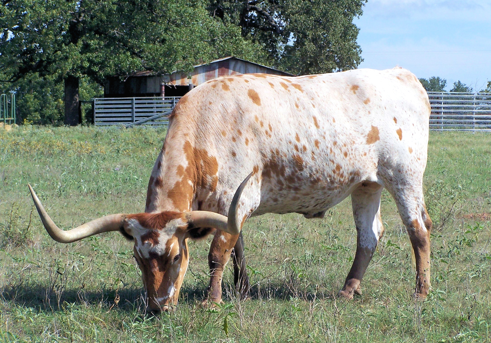 A Texas Longhorn at the Lyndon B. Johnson State Park & Historic Site, Texas, United States.